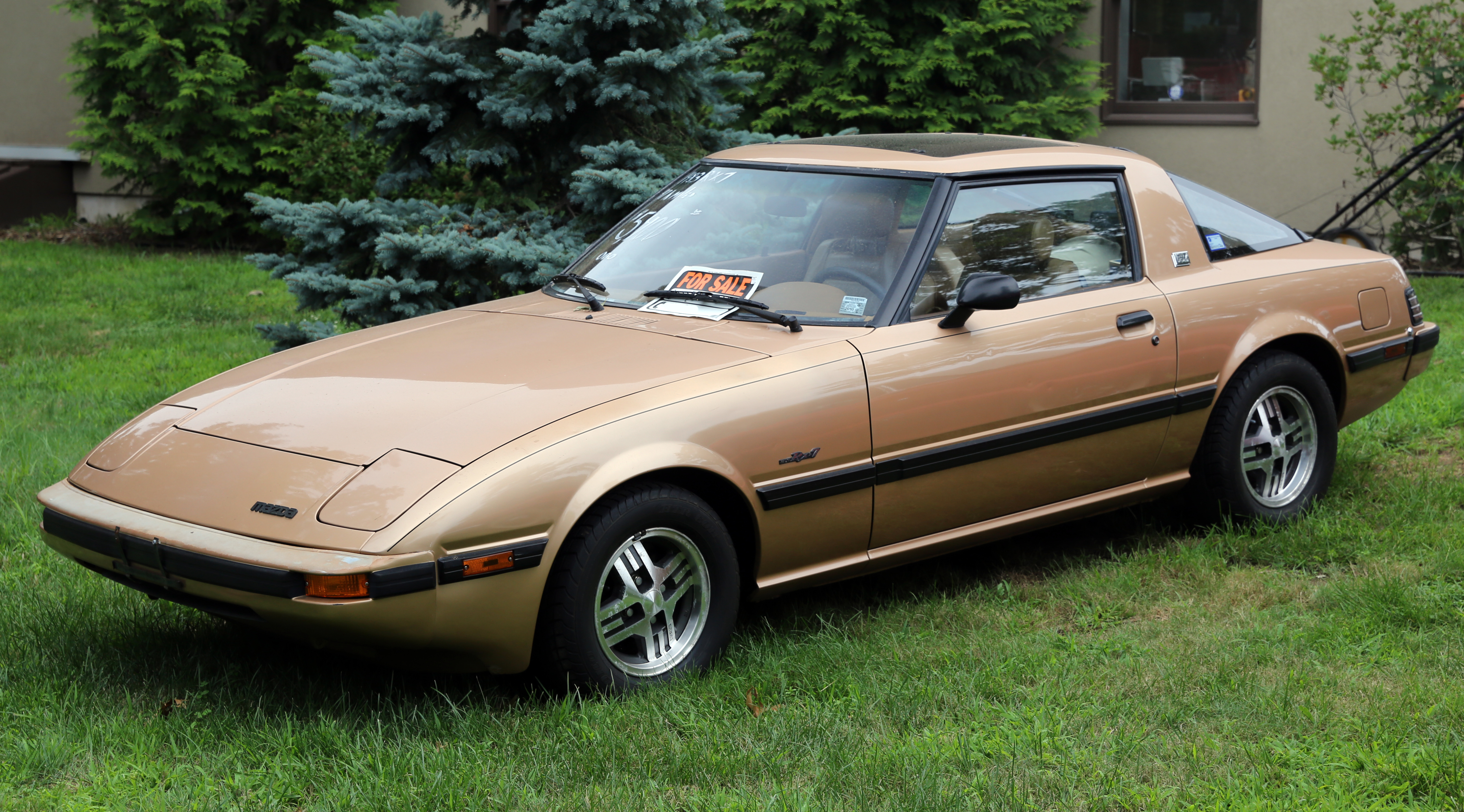 A 1983 Mazda RX-7 GSL. A manual, and for sale, I really want it but don't have any use for it nor anywhere to put it.